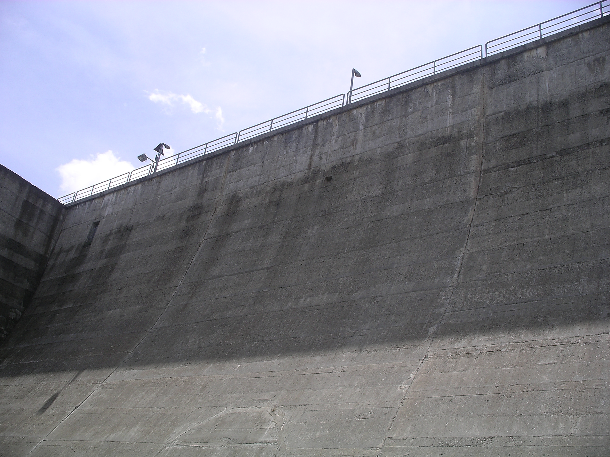 Colle Laura dam, Chiotas Lake, Gesso Valley (CN), Italy